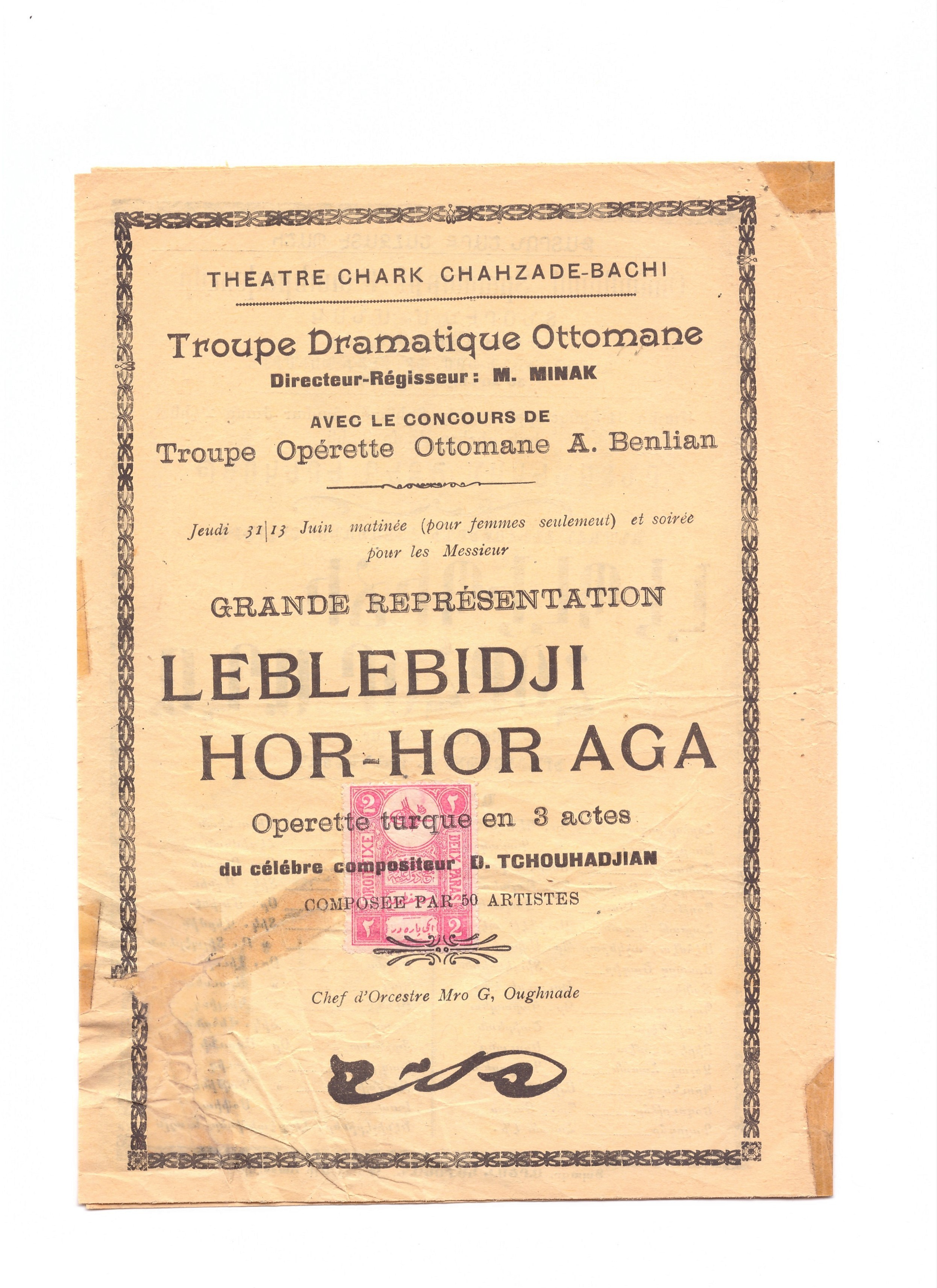 Programme for a 1910 performance of Chukujian'sa opera Leblebidji Hor-Hor Aga